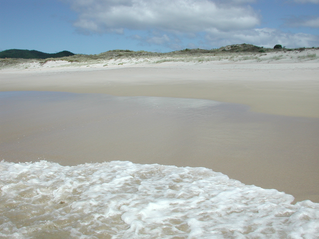 Waves lapping on Otama Beach